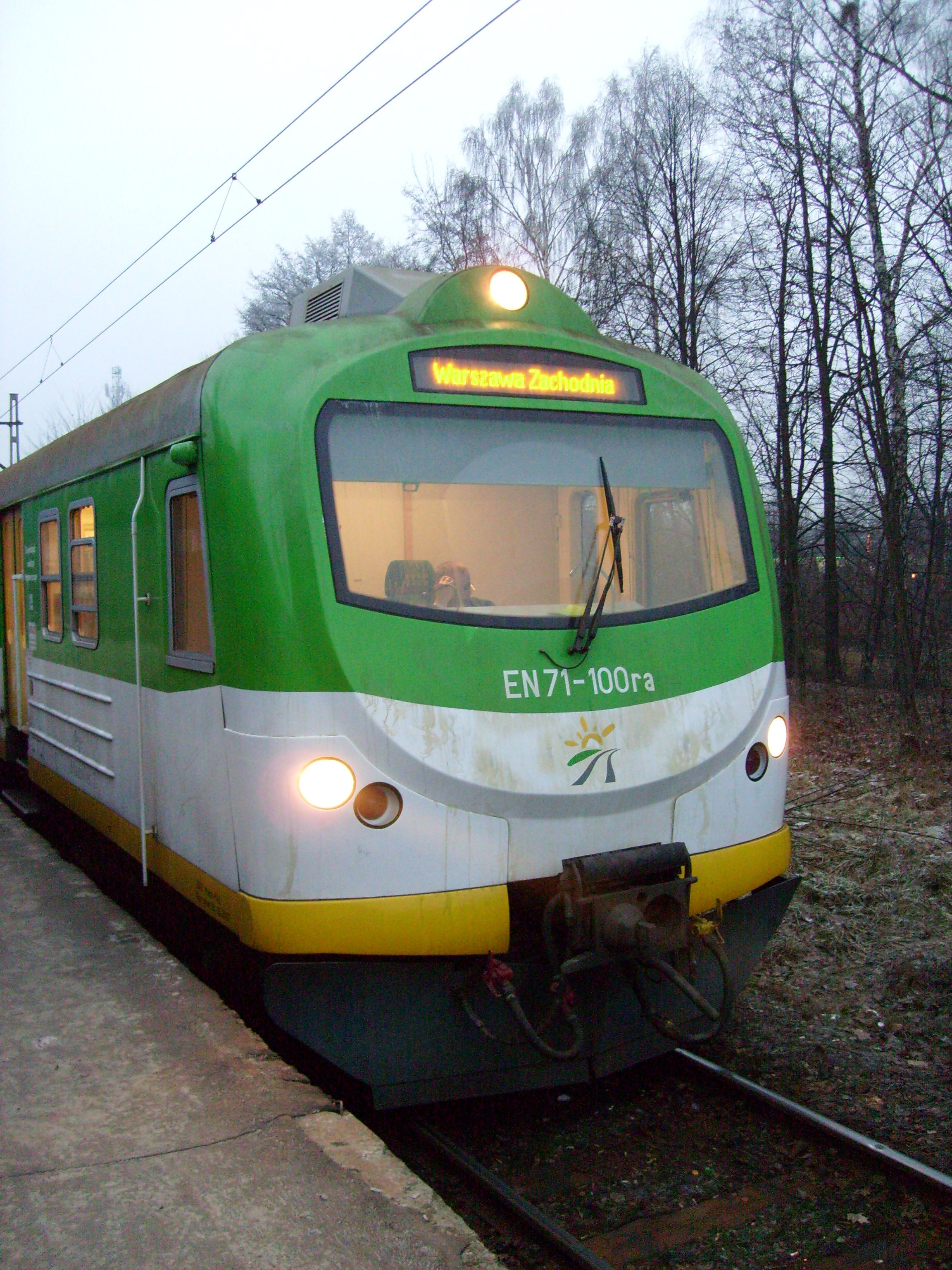 Polish modernised EMU EN71-100 on Celestynów station